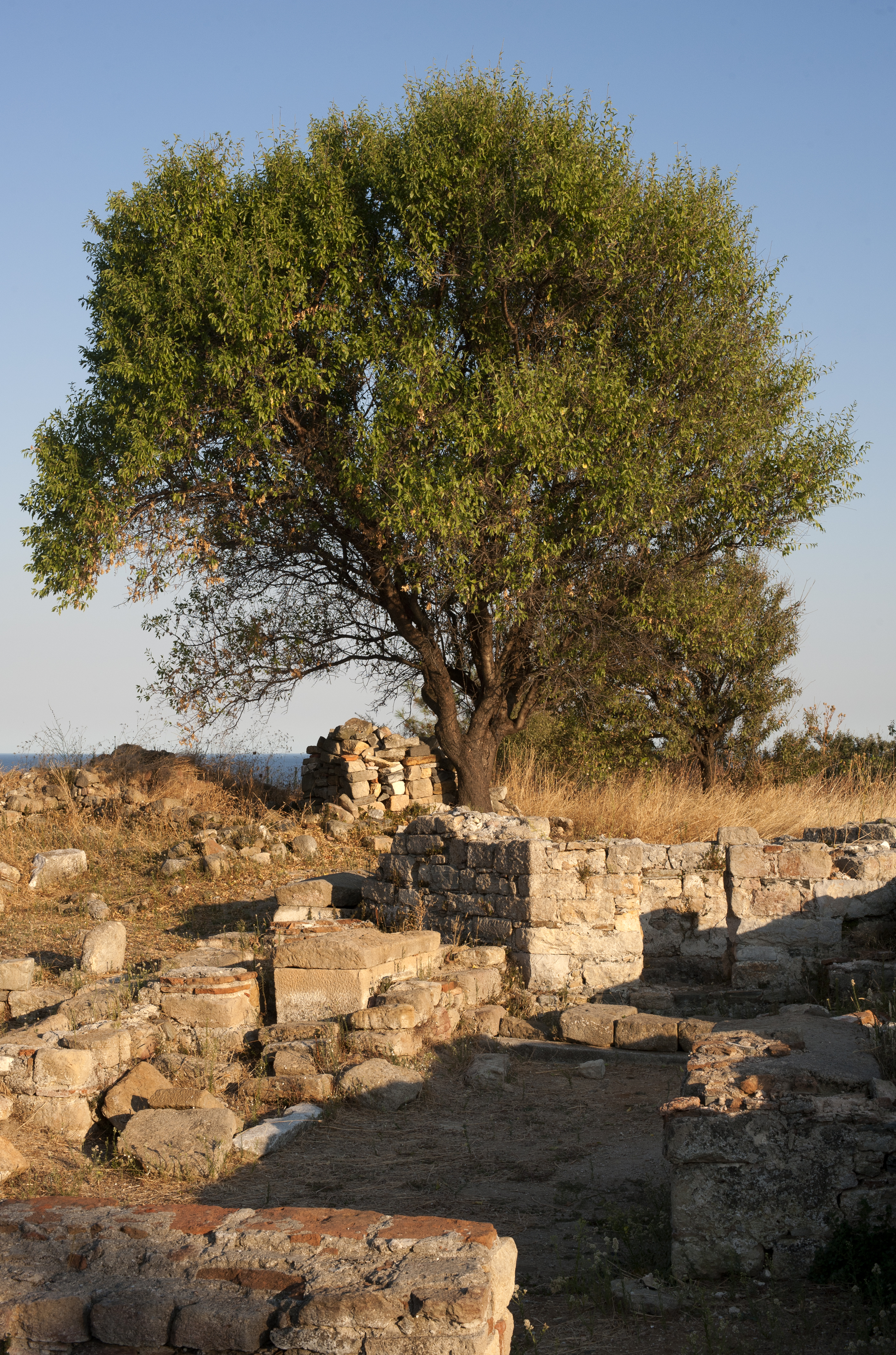 Polystylon Abdera Xanthi Thrace Greece.